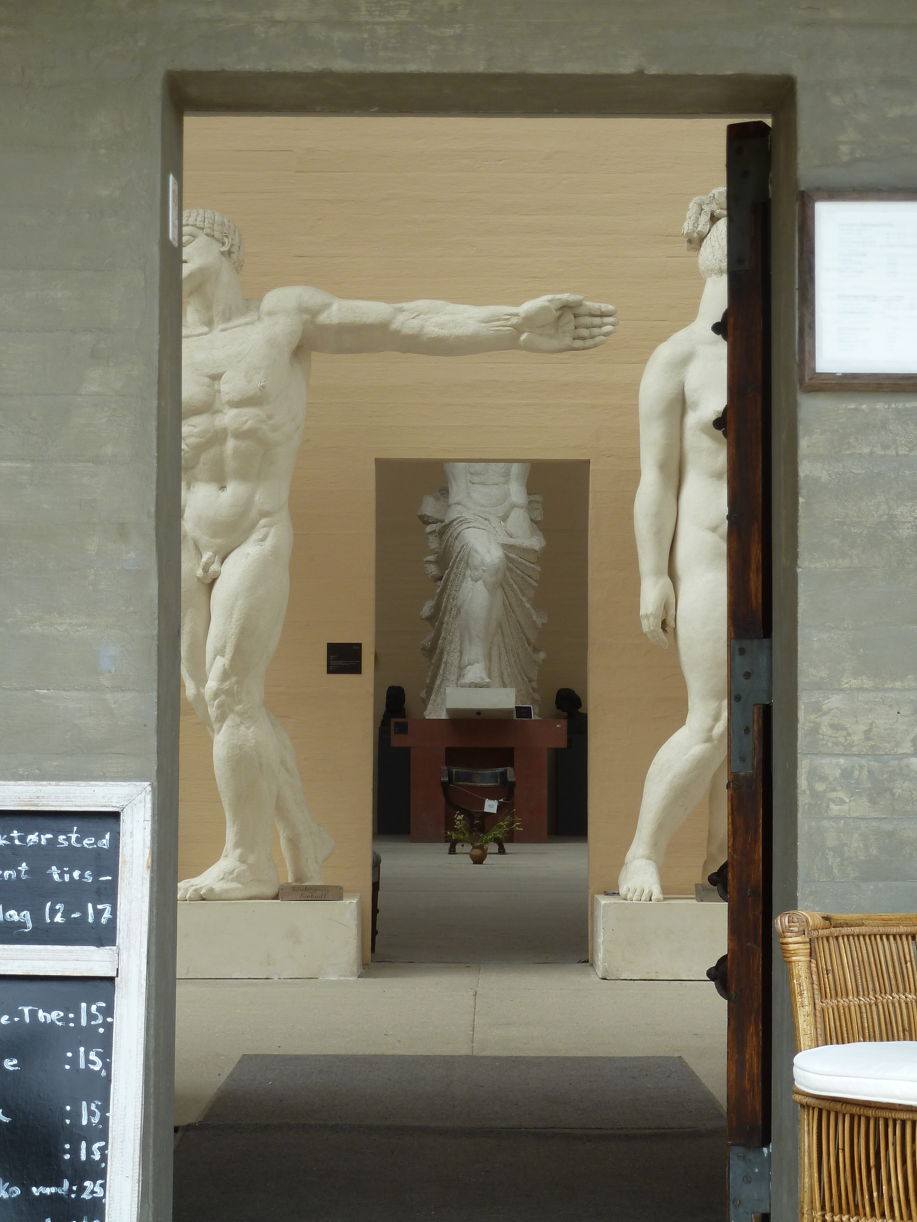 A view through the entrance of the Rudolph Tegner Museum at Dronningmølle north of Copenhagen, Denmark